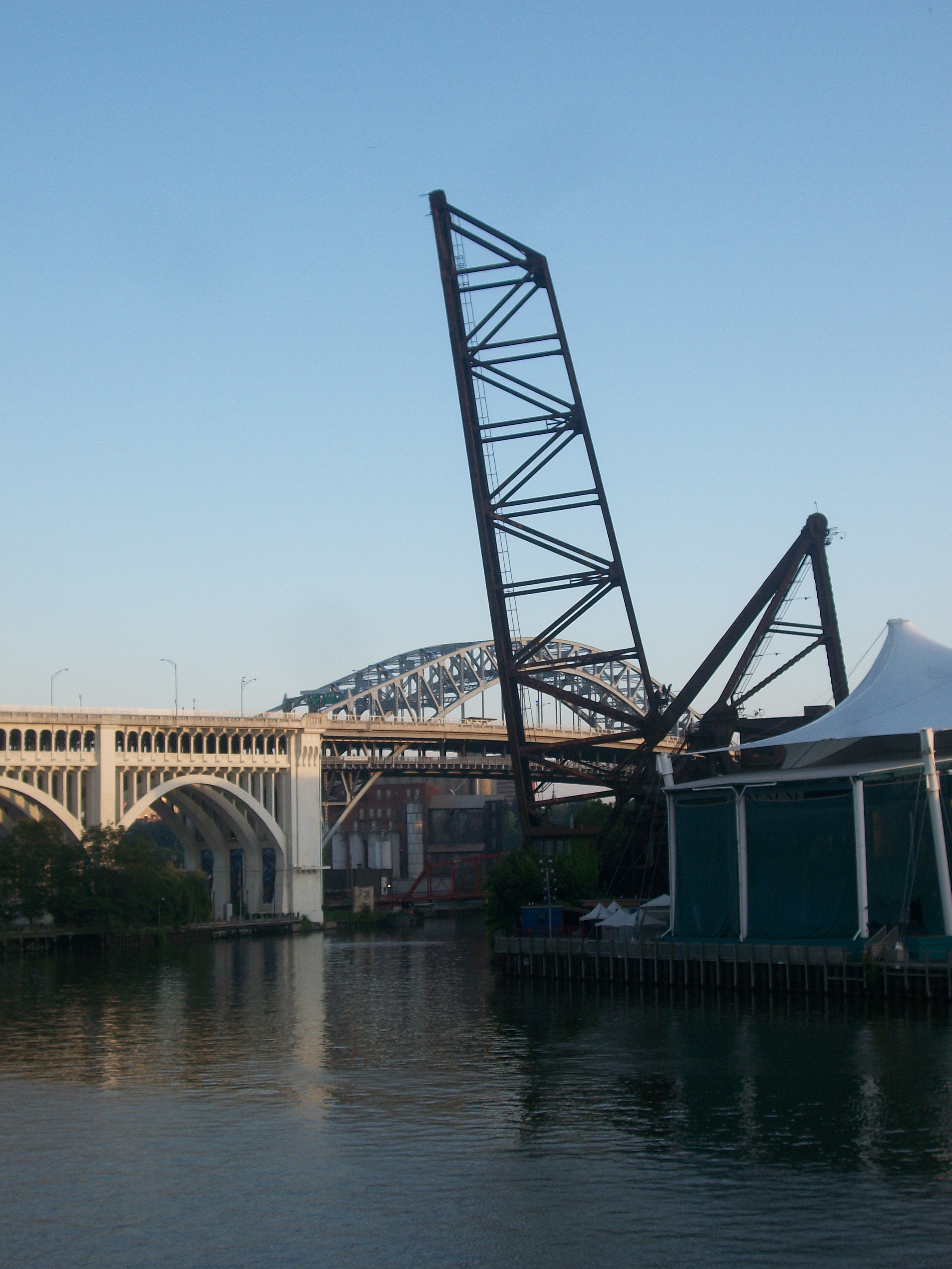 Cuyahogadraw bridge